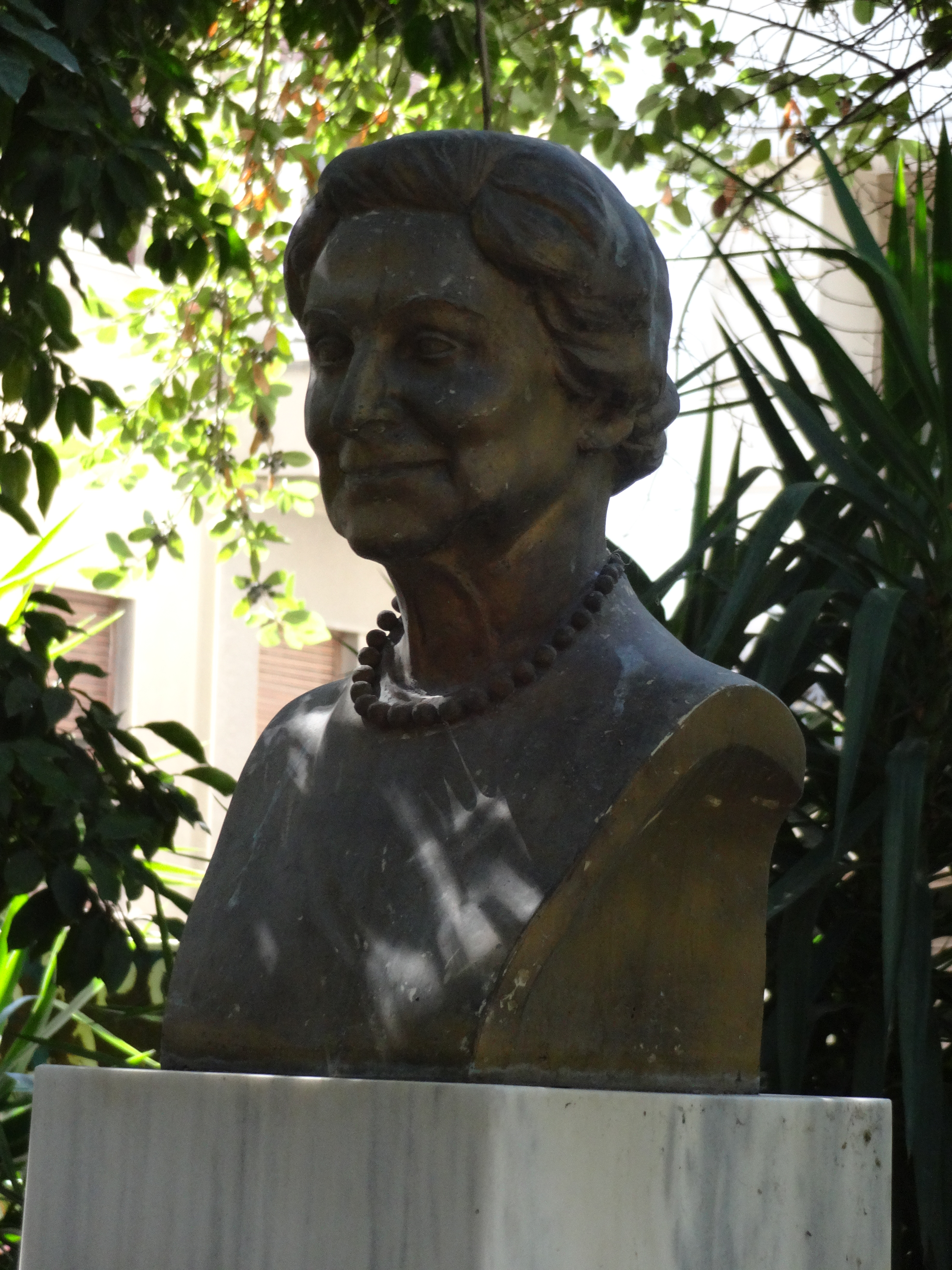 Bust of Greek writer Ioanna Tsatsou, opposite of church Sotira Kotaki, Plaka, Athens, Greece